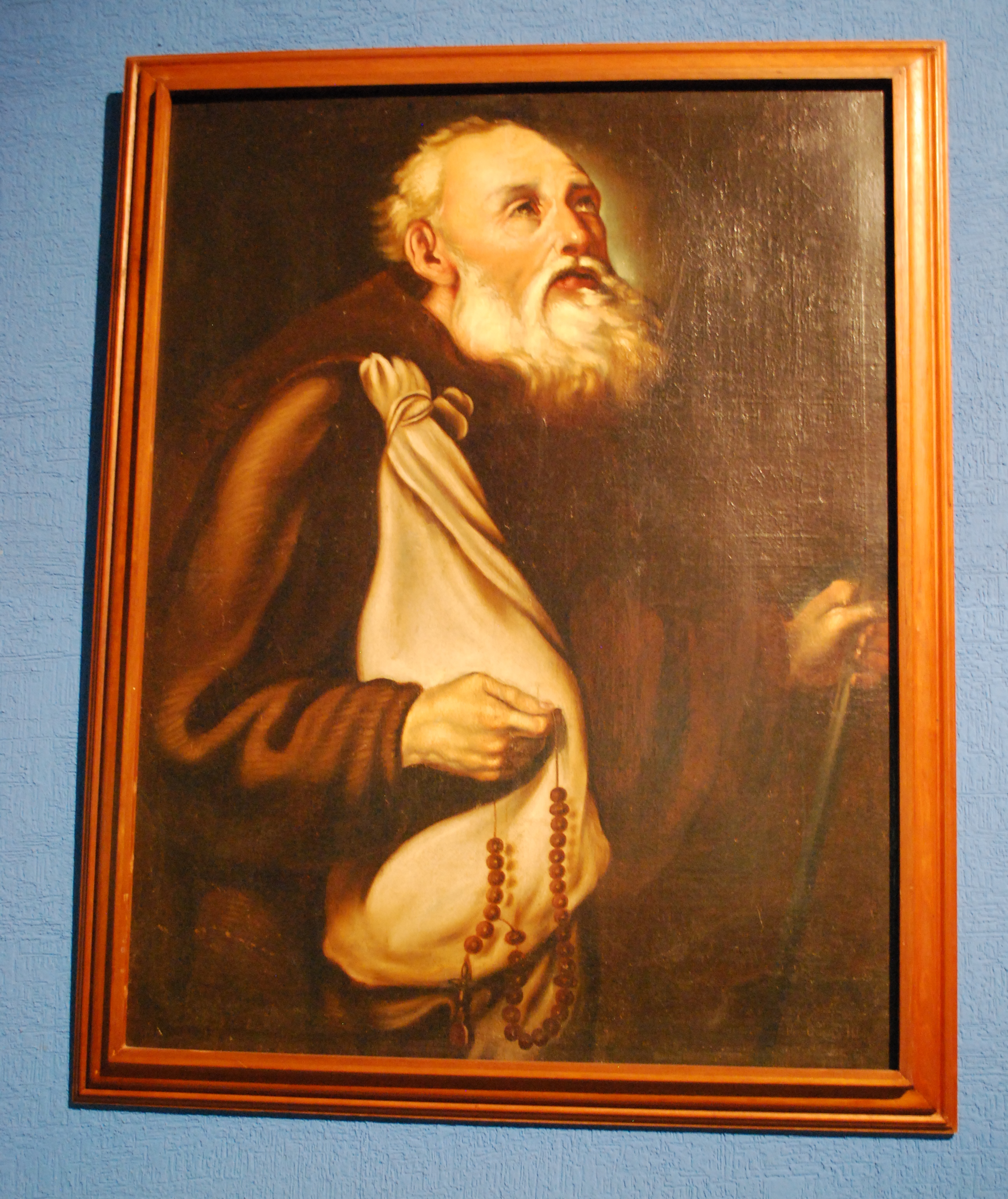 Painting of San Simon Stock from the 18th century by C. Pola. On display at the Regional Museum in Tuxtla Gutierrez, Chiapas, Mexico